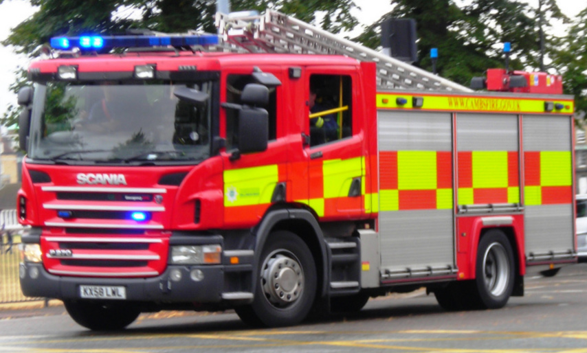 A fire engine of the Cambridgeshire Fire & Rescue Service, in Cambridge, England